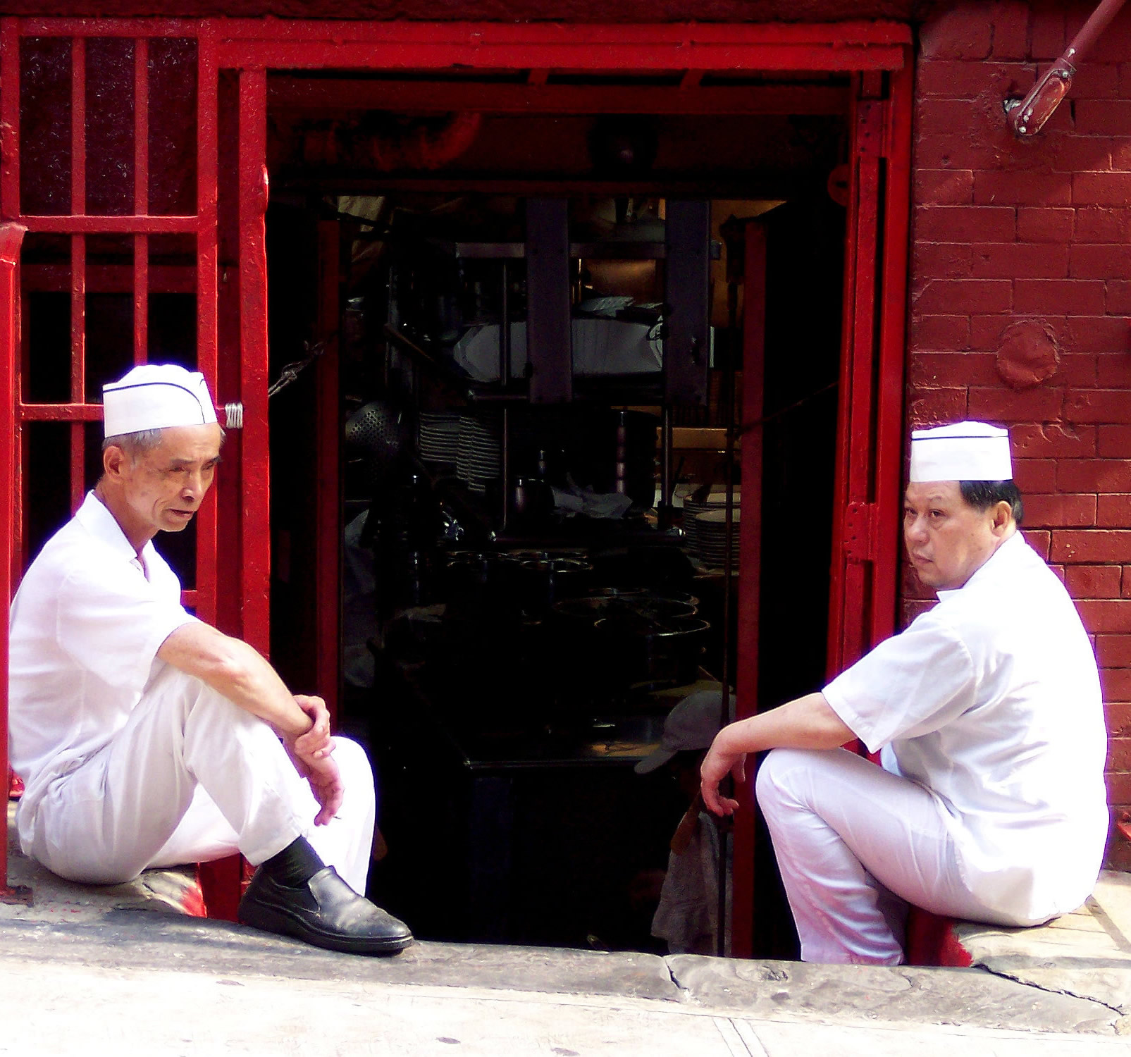 Chinatown cooks enjoying a respite (New York City, New York, USA).